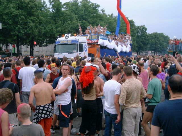 Nature One Truck at the Love Parade 2002 in Berlin/Germany